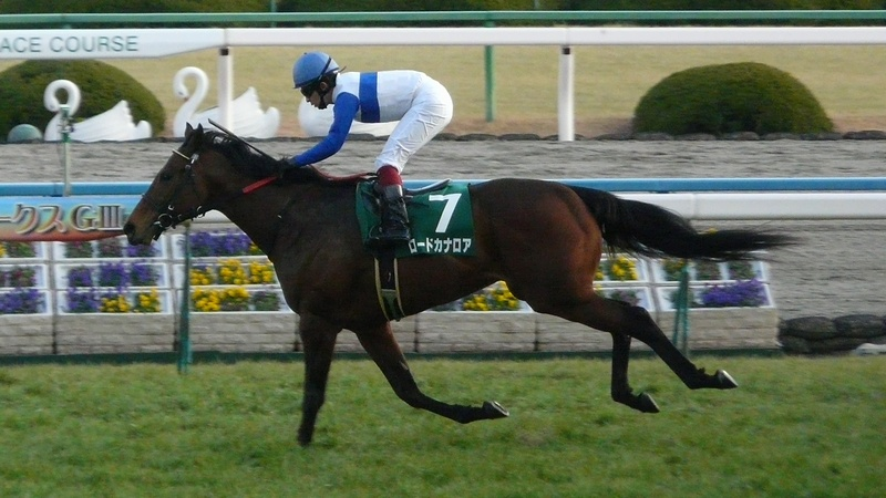 Lord-kanaloa20120128(2)